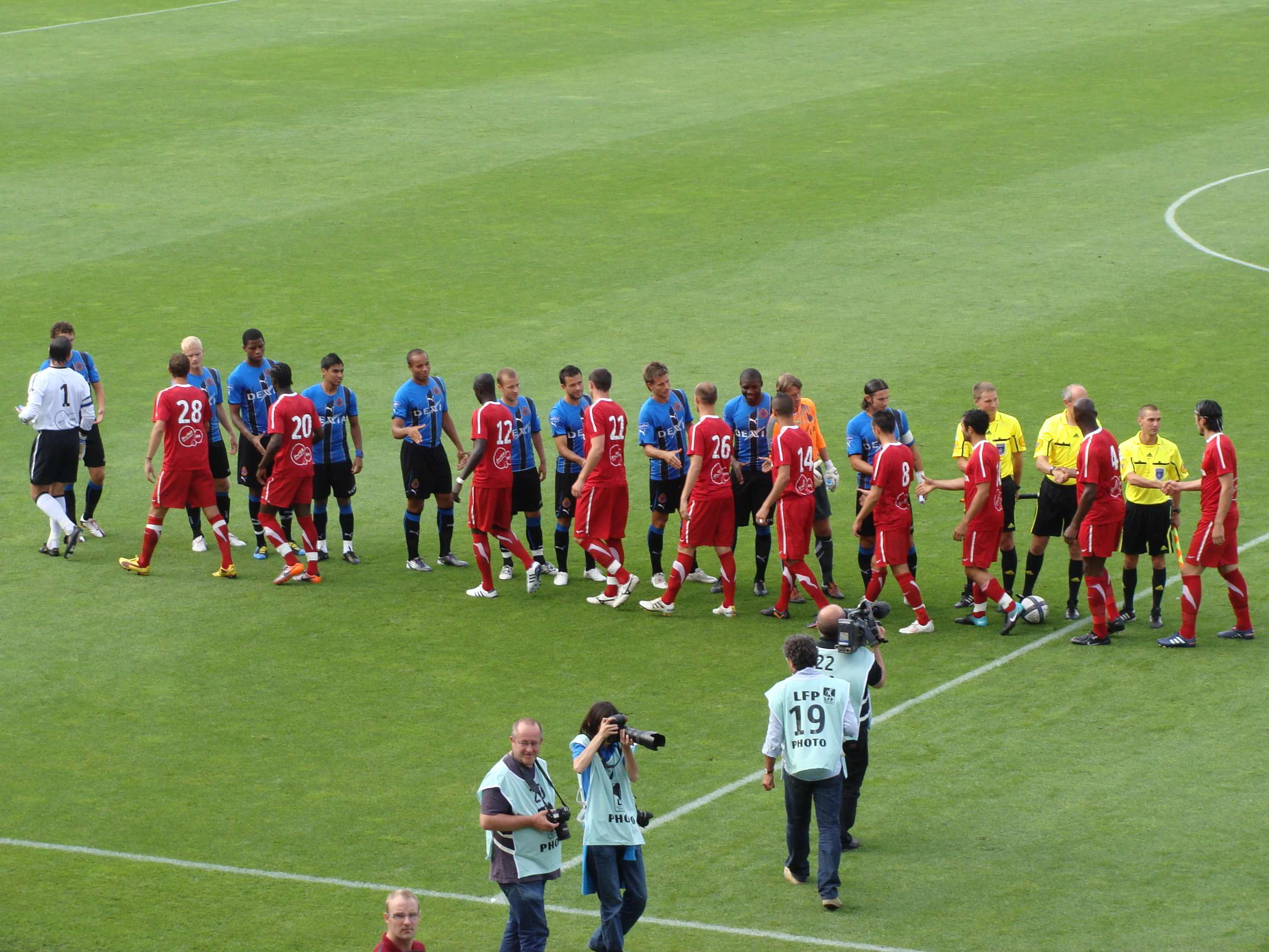 Valenciennes vs Bruges